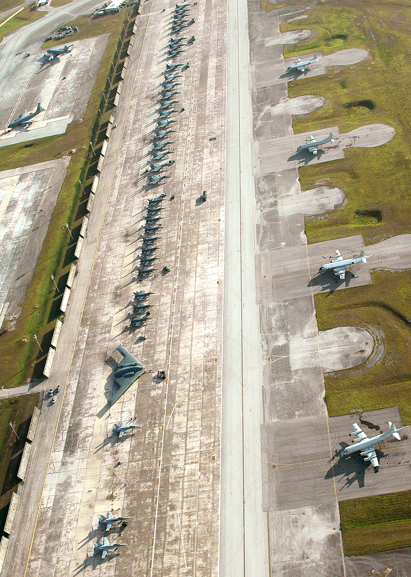 A B-2 Spirit, F-15 Eagles, F-16 Fighting Falcons, F-18 Hornets and Japanense P-3 Orions line the flightline at Andersen Air Force Base, Guam, for Exercise Valiant Shield 2006 on Thursday, June 22. The exercise, which concludes June 23, focuses on integrated joint training in a variety of mission scenarios. (U.S. Navy photo/Petty Officer 2nd Class John F. Looney)